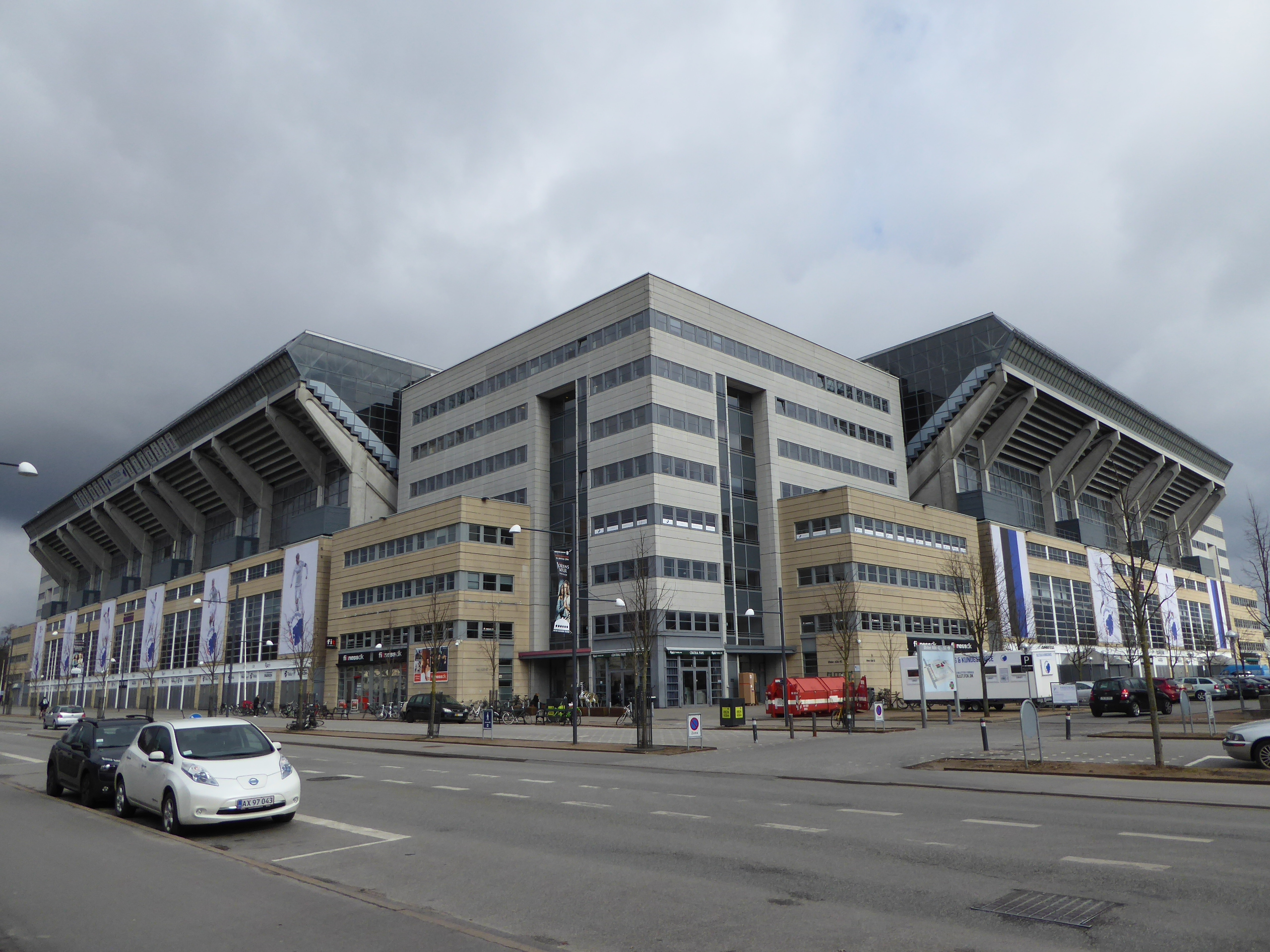 The Danish national soccer stadium Parken at Øster Allé in Østerbro in Copenhagen.